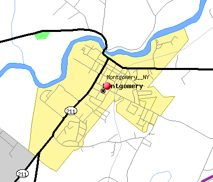 Created by Daniel Case using online mapping at .[1]